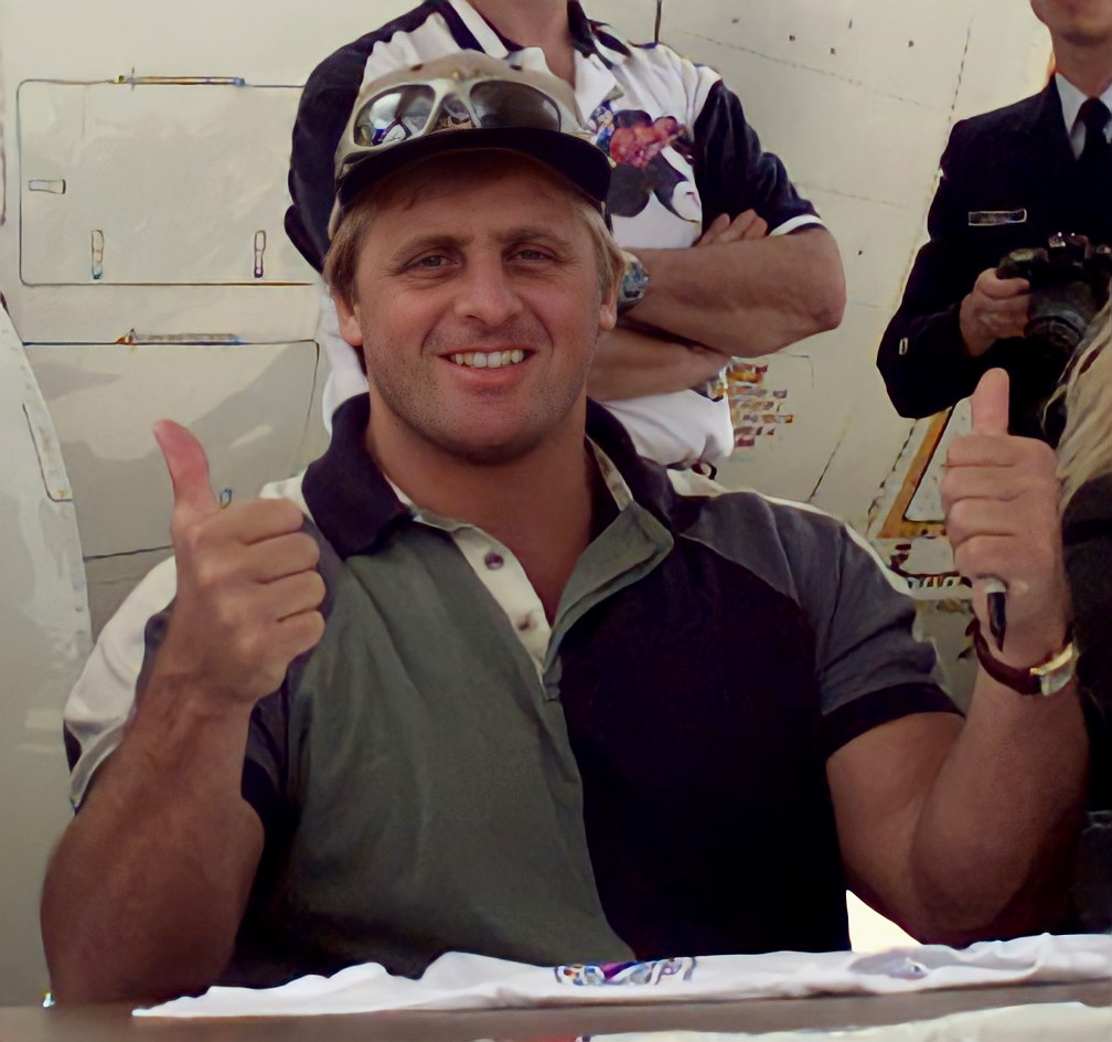 Owen Hart takes a moment out of his autographing session to pose for the cameras. WWF wrestlers were guest of the Coast Guard at the annual airshow held on Andrews AFB.